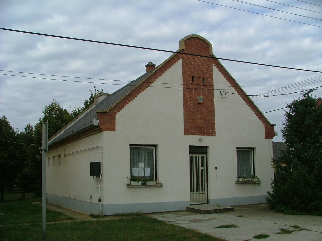 The doctor's office in Mérges